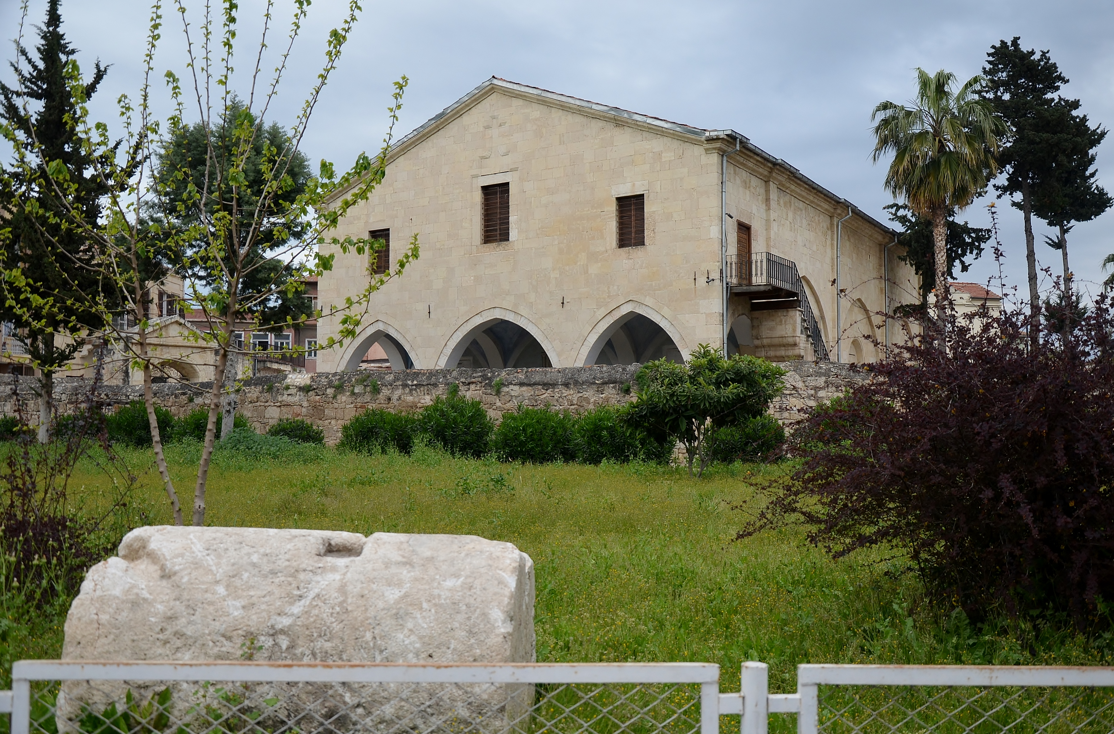 Saint Paul's Church in Tarsus